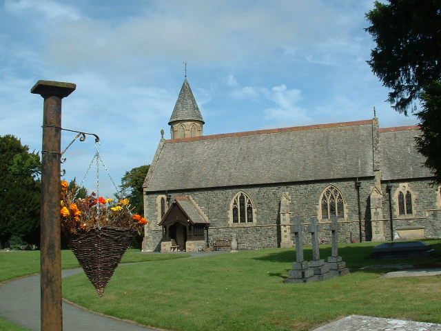 Tysilio Church. Unusual for having a circular tower this church at Llandysilio has an ancient feel but dates only from C19.